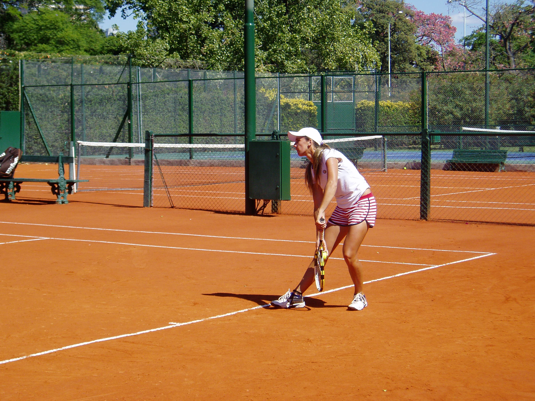 María Irigoyen during a training session with Tatiana Bua, at the Tenis Club Argentino, preparing for the WC 25000 Buenos Aires 2011.